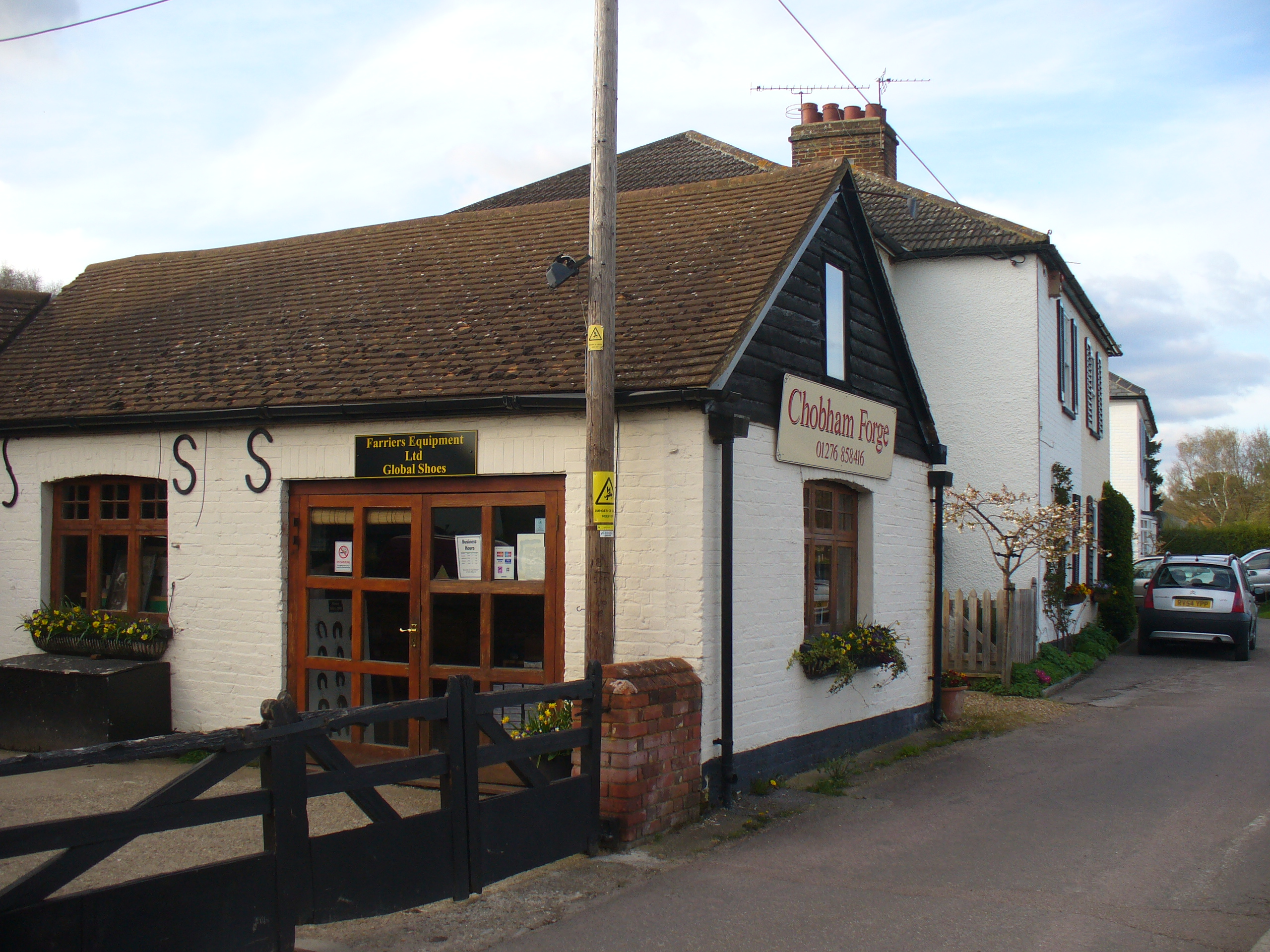 Chobham Forge Farriers shop and cottages at a corner of the triangular green at Burrowhill, Chobham.